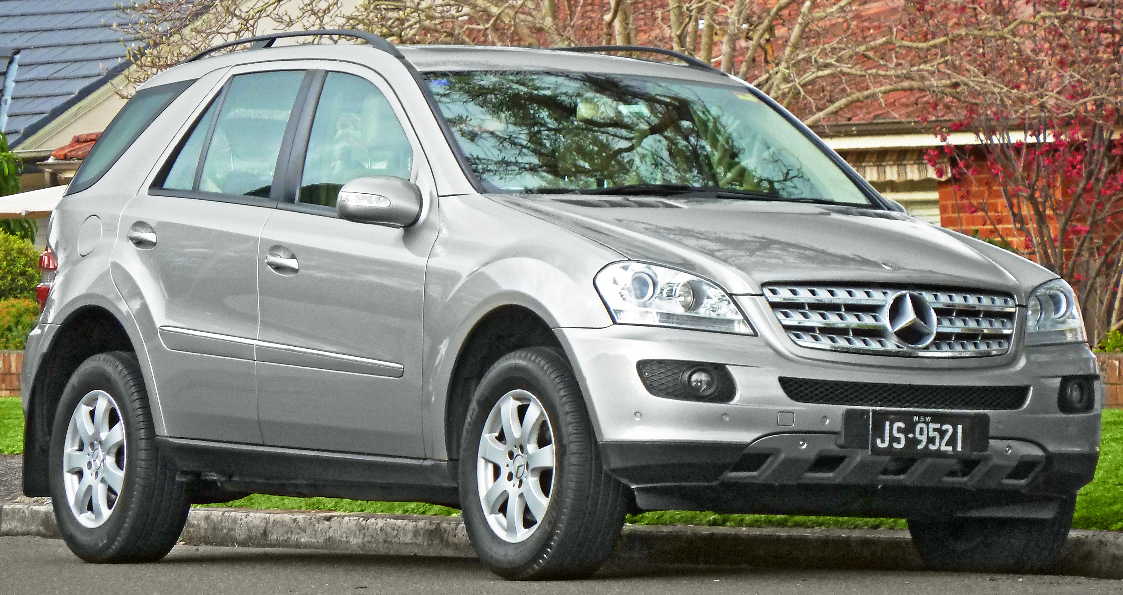 2006 Mercedes-Benz ML 320 CDI (W 164) wagon. Photographed in Castle Cove, New South Wales, Australia.